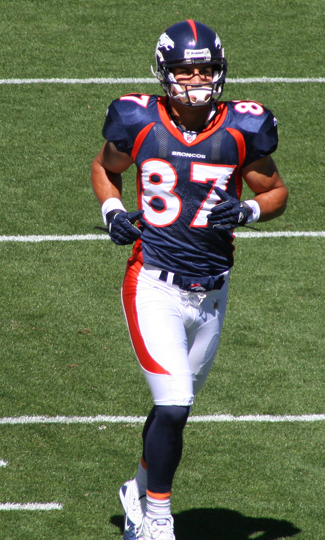 Eric Decker, a player on the Denver Broncos American football team.